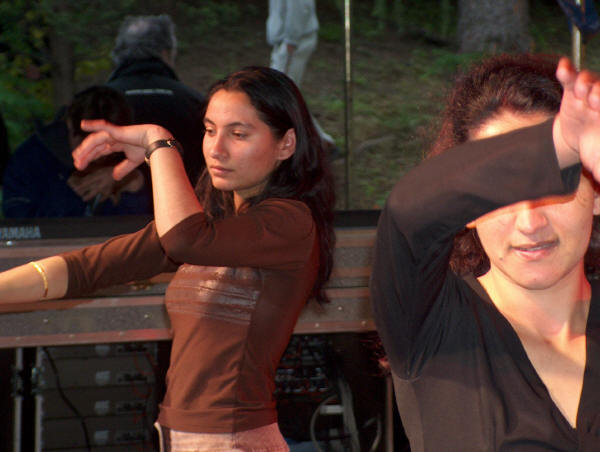 Romani girl dancing rehearsal